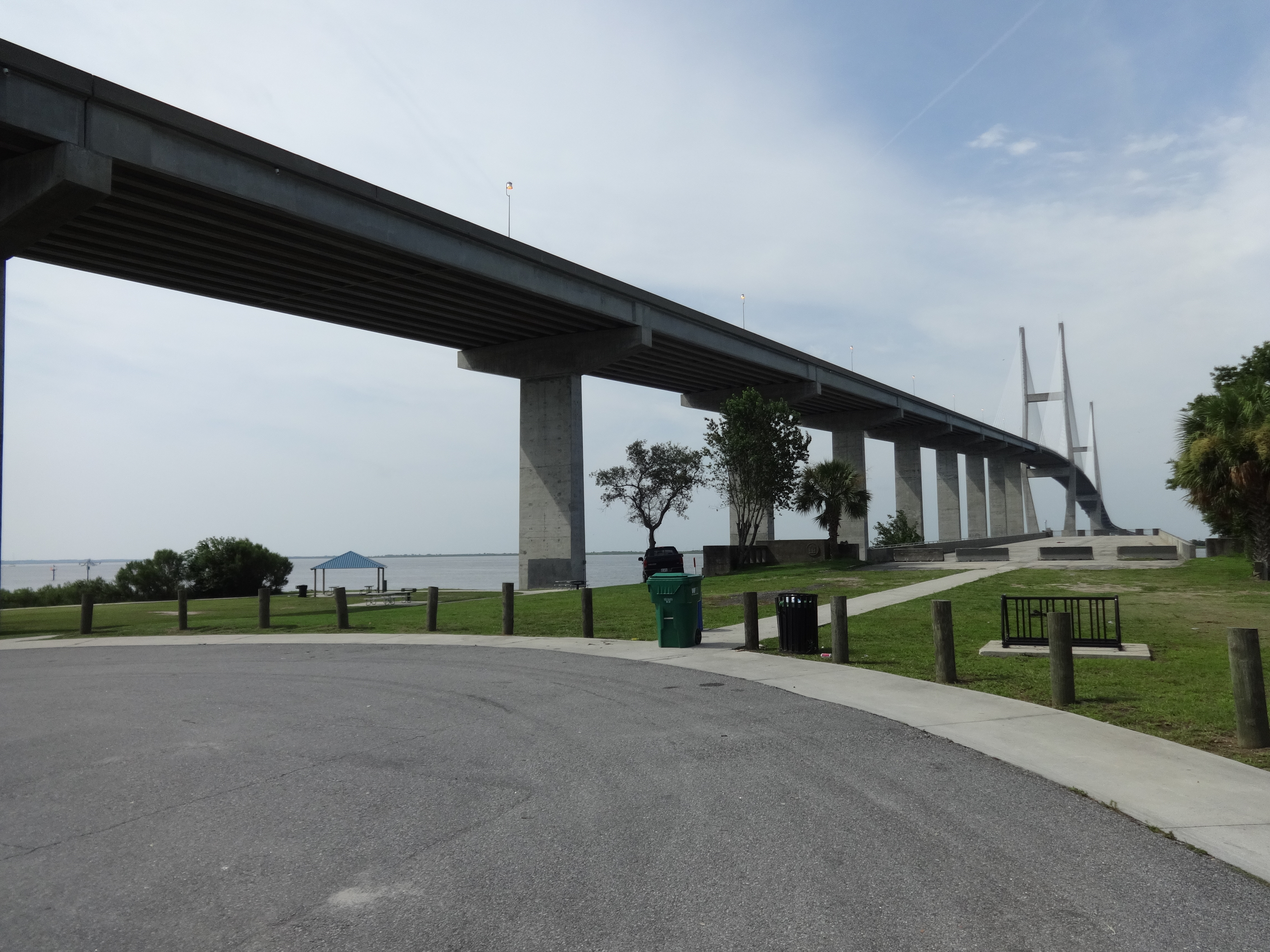 Sidney Lanier Bridge, Glynn County, Georgia